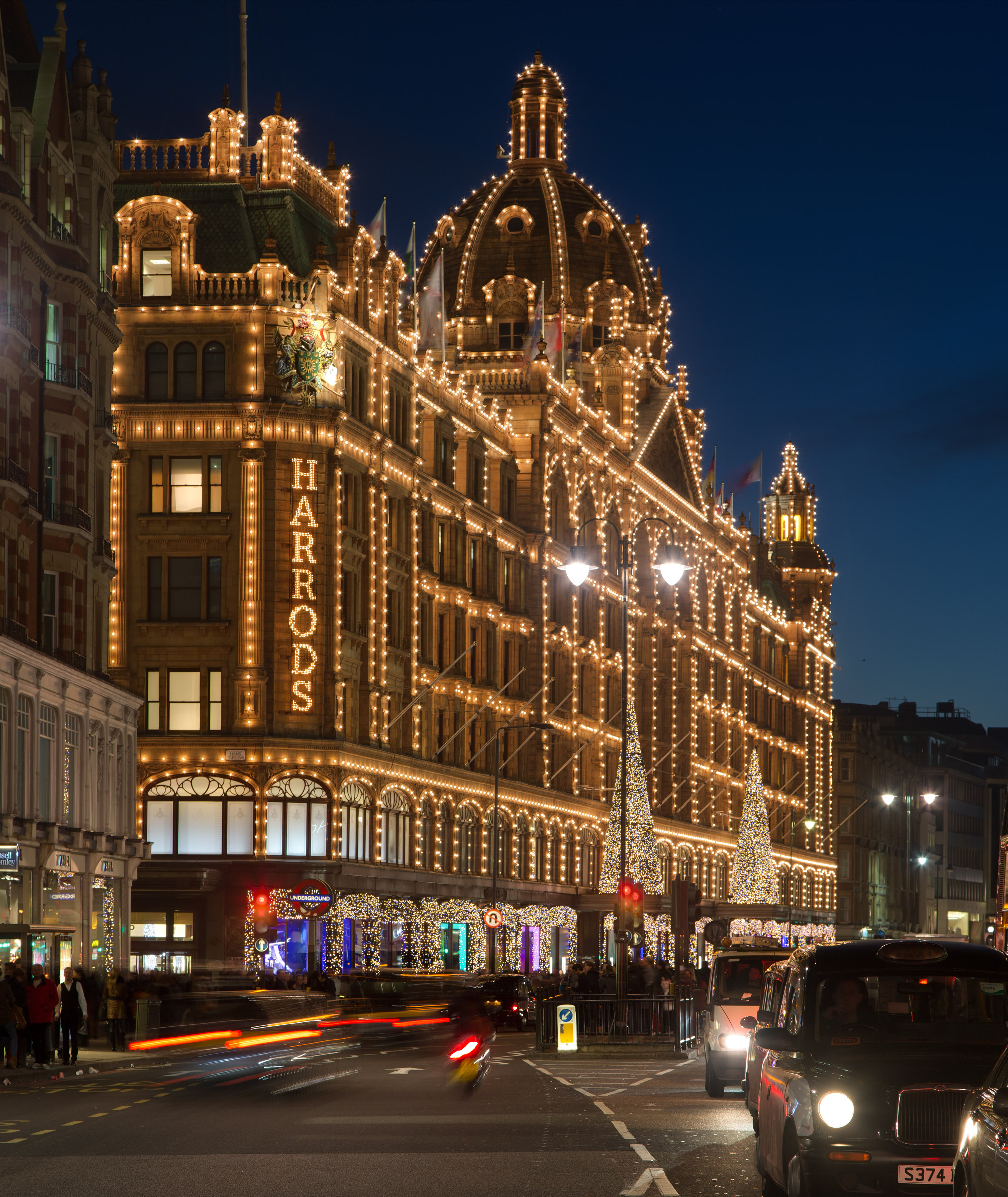 Harrods Department Store frontage as viewed along Brompton Rd at night.